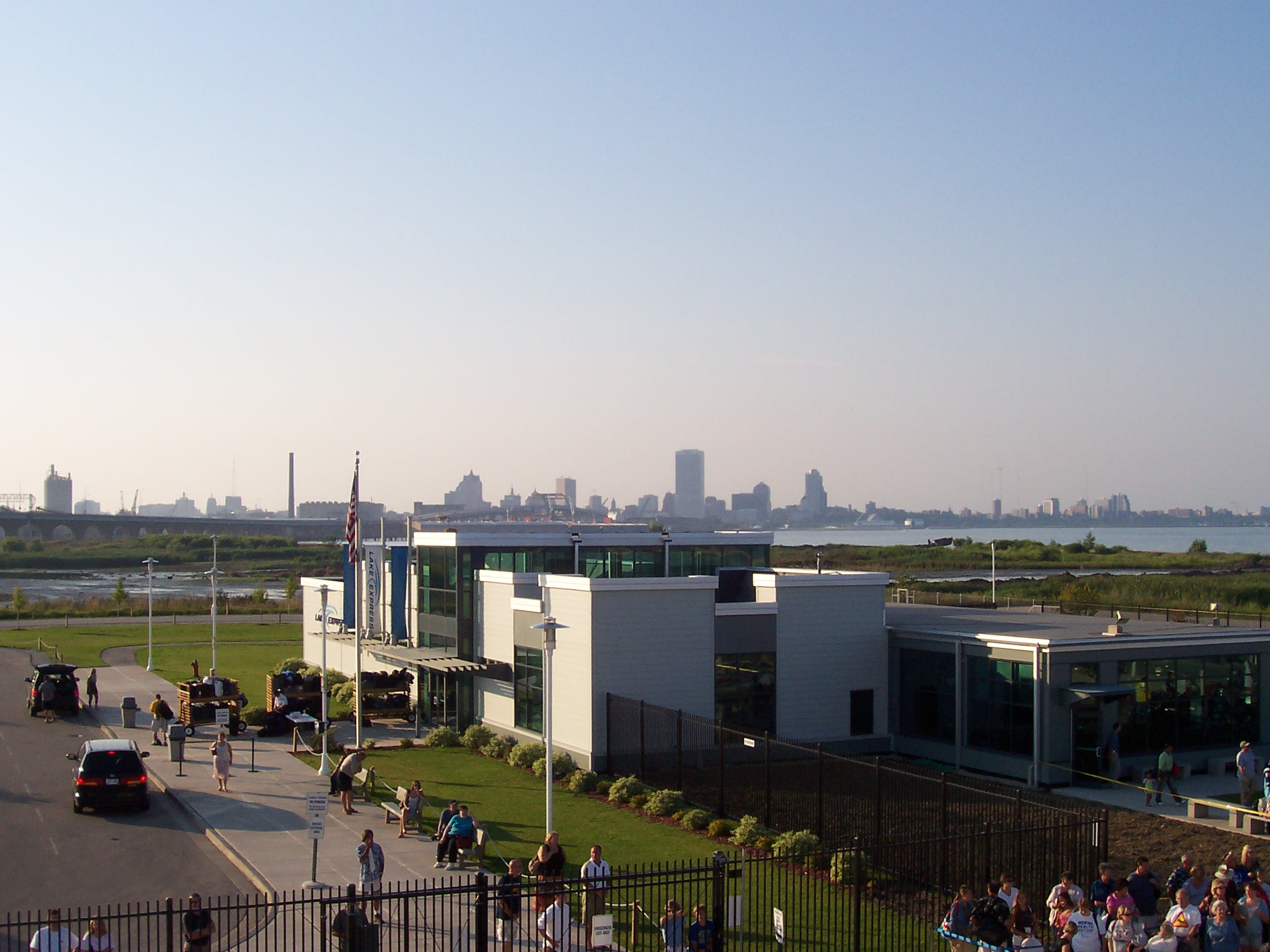 The terminal for the HSC Lake Express ferry in Milwaukee, Wisconsin